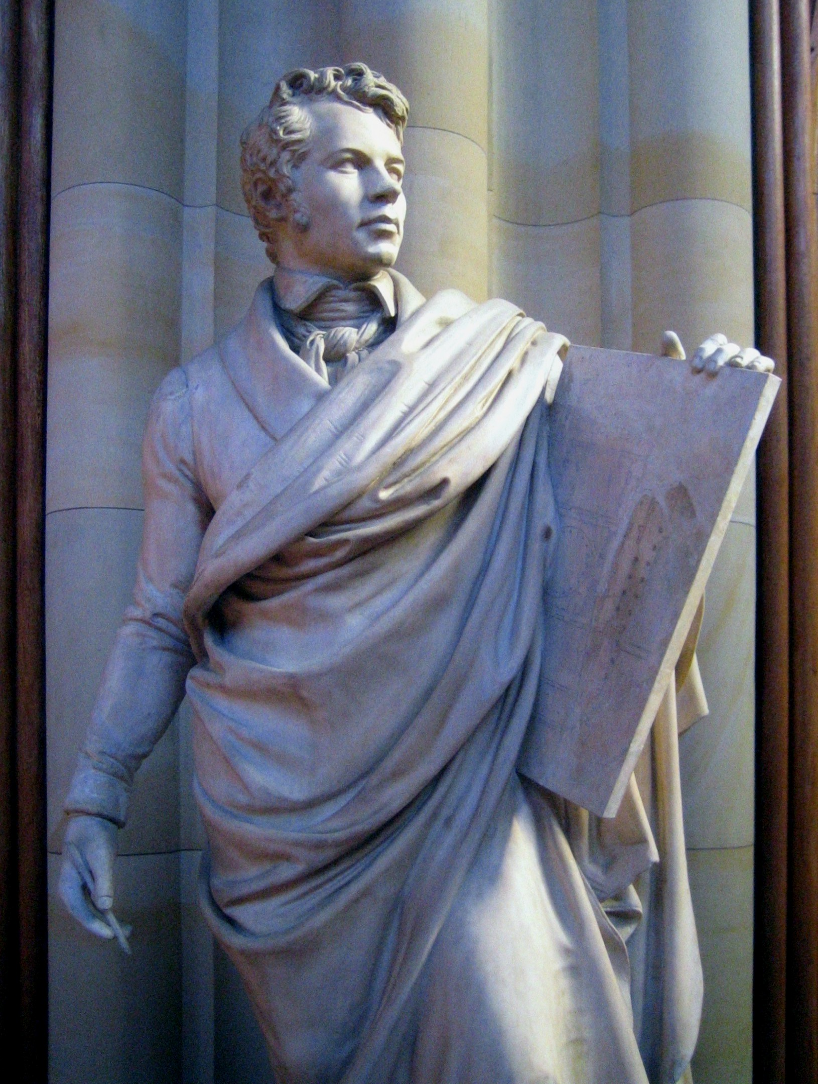 Statue of the architect Karl Friedrich Schinkel, created by Christian Friedrich Tieck, a 19th century sculptor.